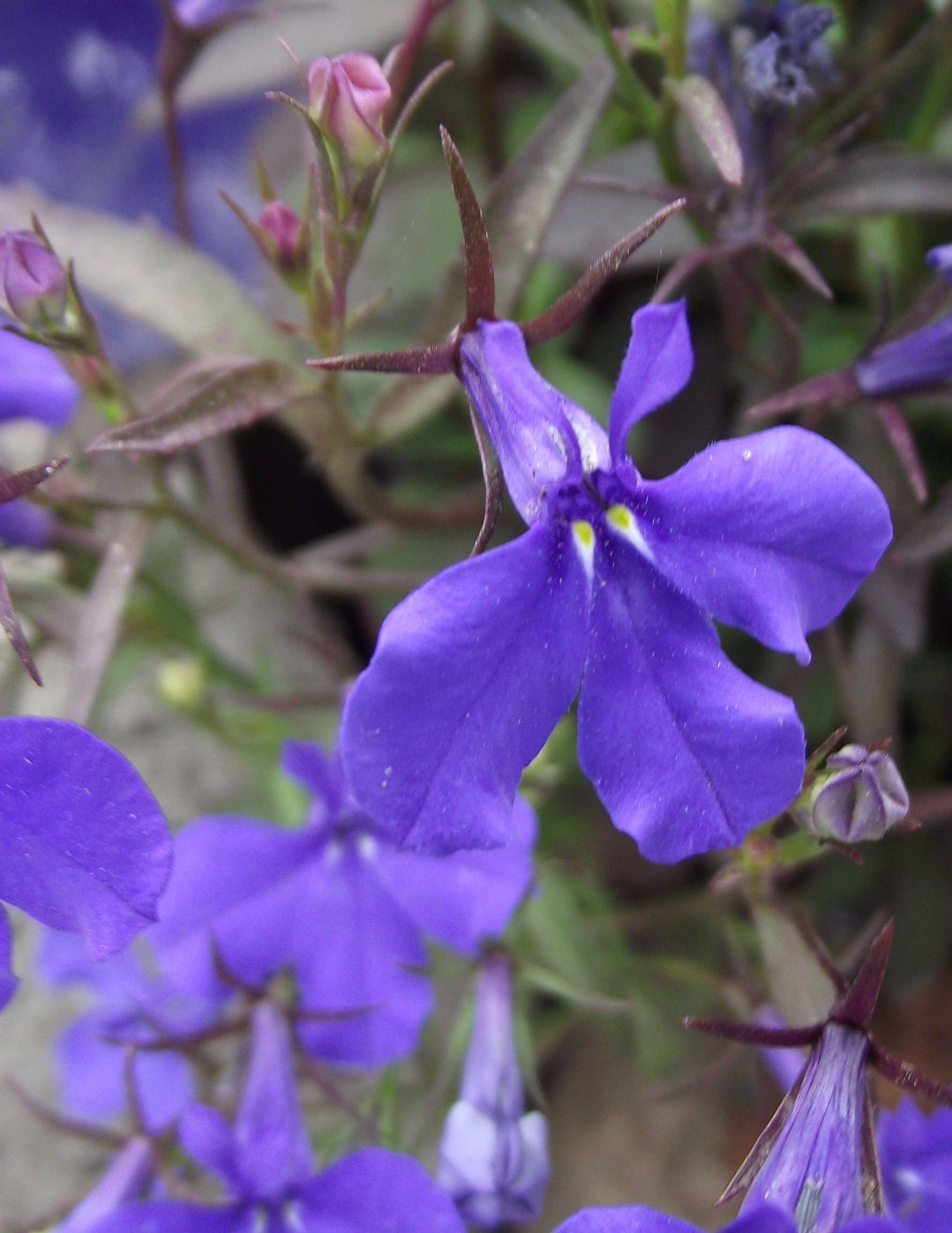 Lobelia erinus 'Crystal Palace' at the San Diego County Fair, California, USA